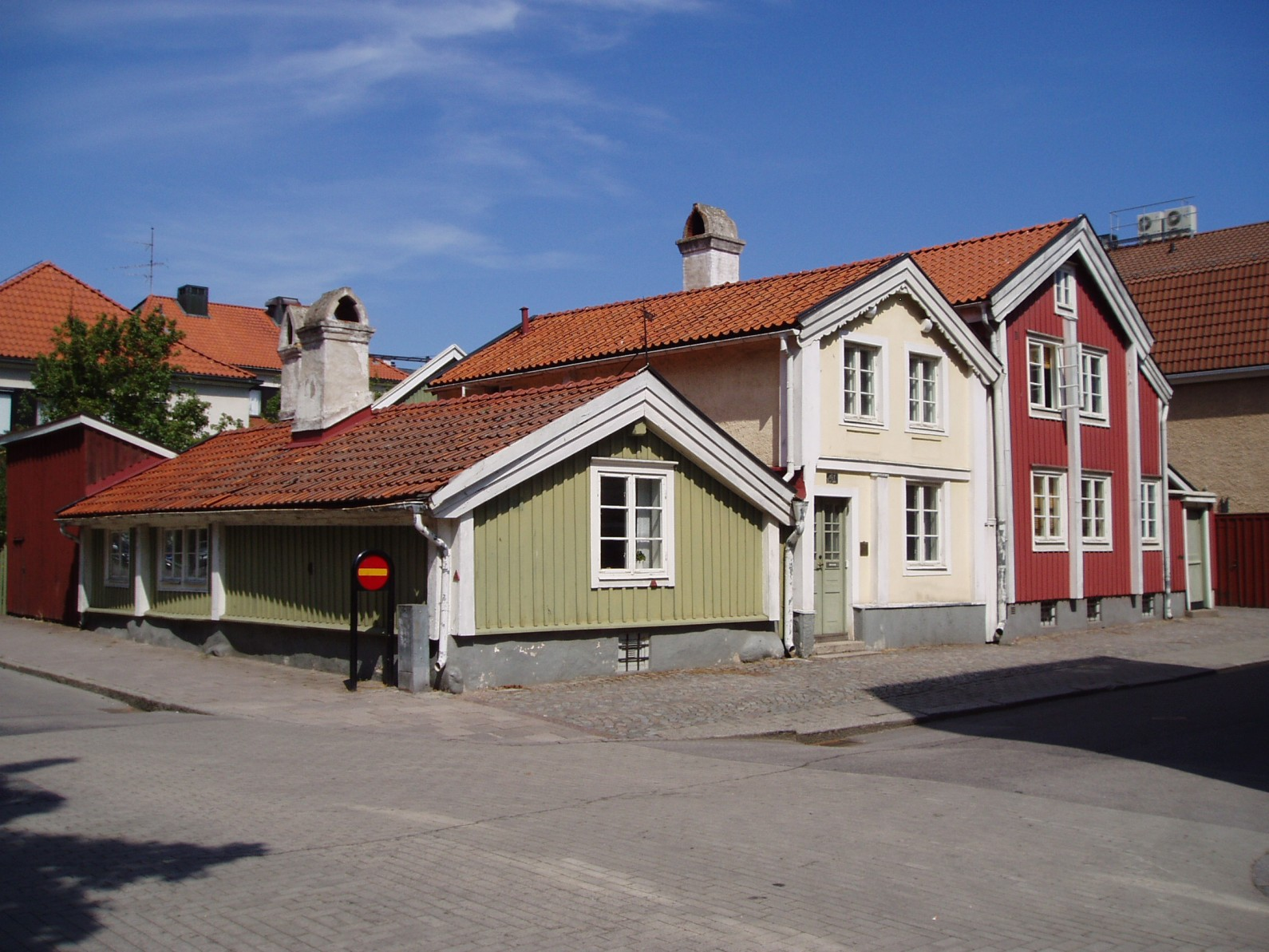 Houses "Tripp Trapp Trull" at Kalmar, Sweden.